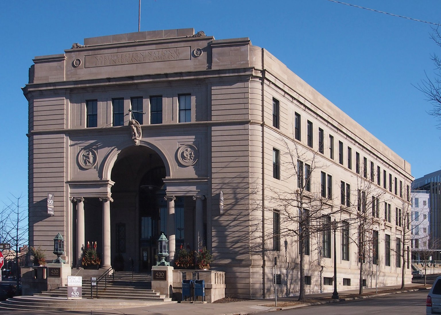 Northwestern National Life Insurance Company Home Office, 430 Oak Grove St, Minneapolis, Minnesota, USA. Viewed from the northwest.